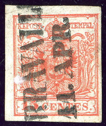 Stamp of Lombardy-Venetia, 15 centesimi, Handpaper first issue 1850, cancelled at SERRAVALLE (near Mantua).